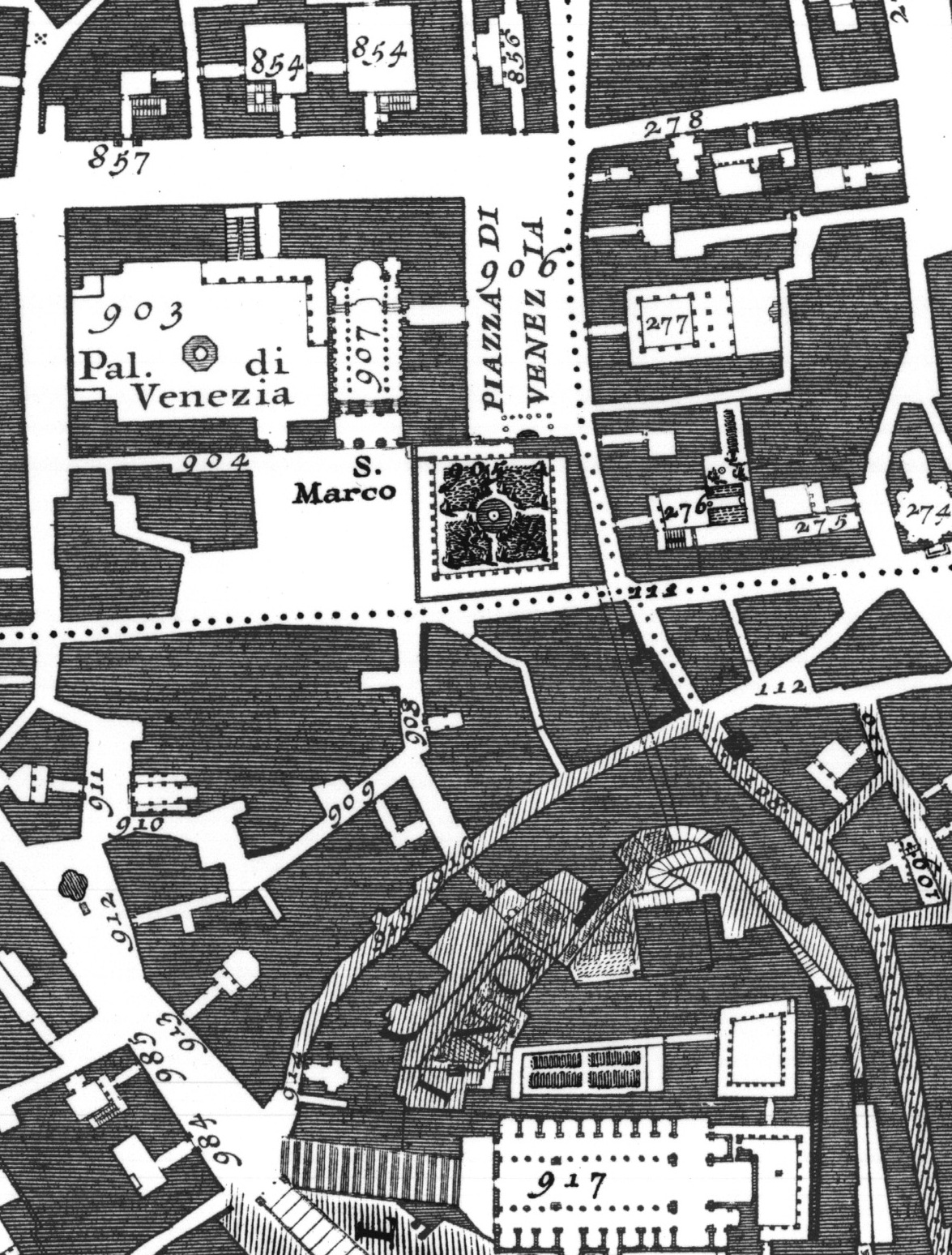 Piazza Venezia, particolare da "Nuova Topografia di Roma" di Giovanni Battista Nolli (1748).